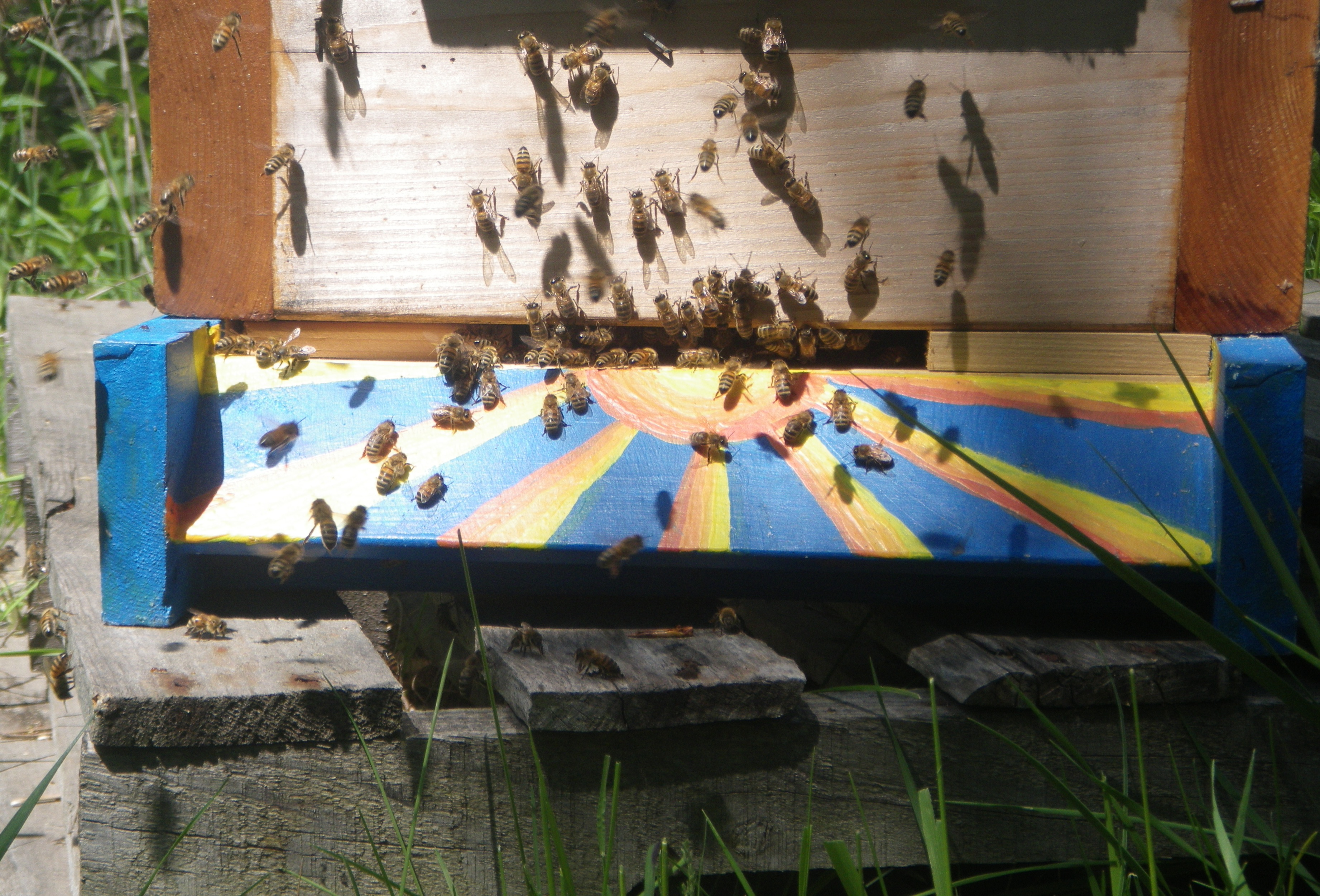 Honey bees gathered around the entrance of a hive. More information on this bottom board design here.